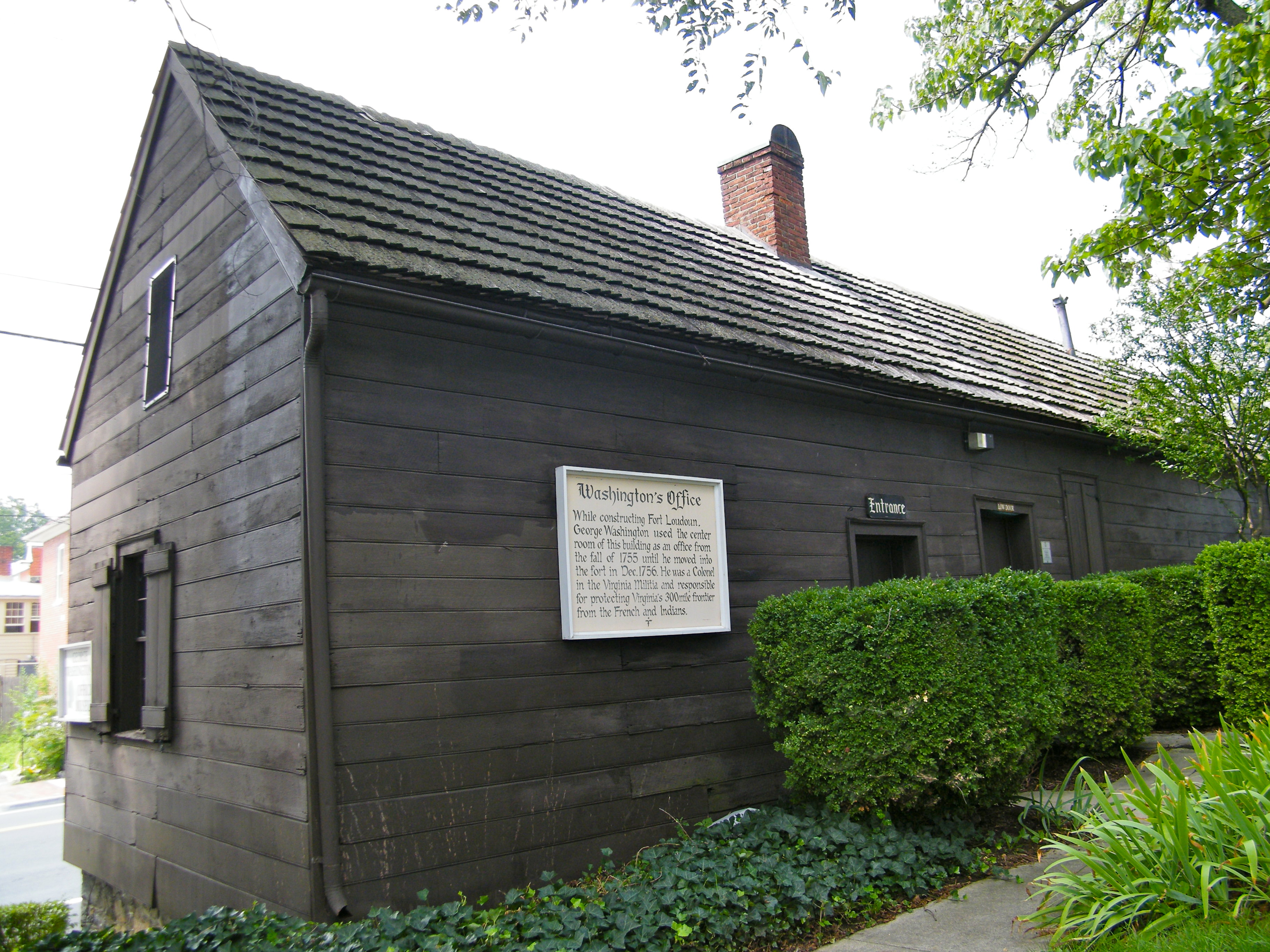 George Washington's Office, Winchester, Virginia